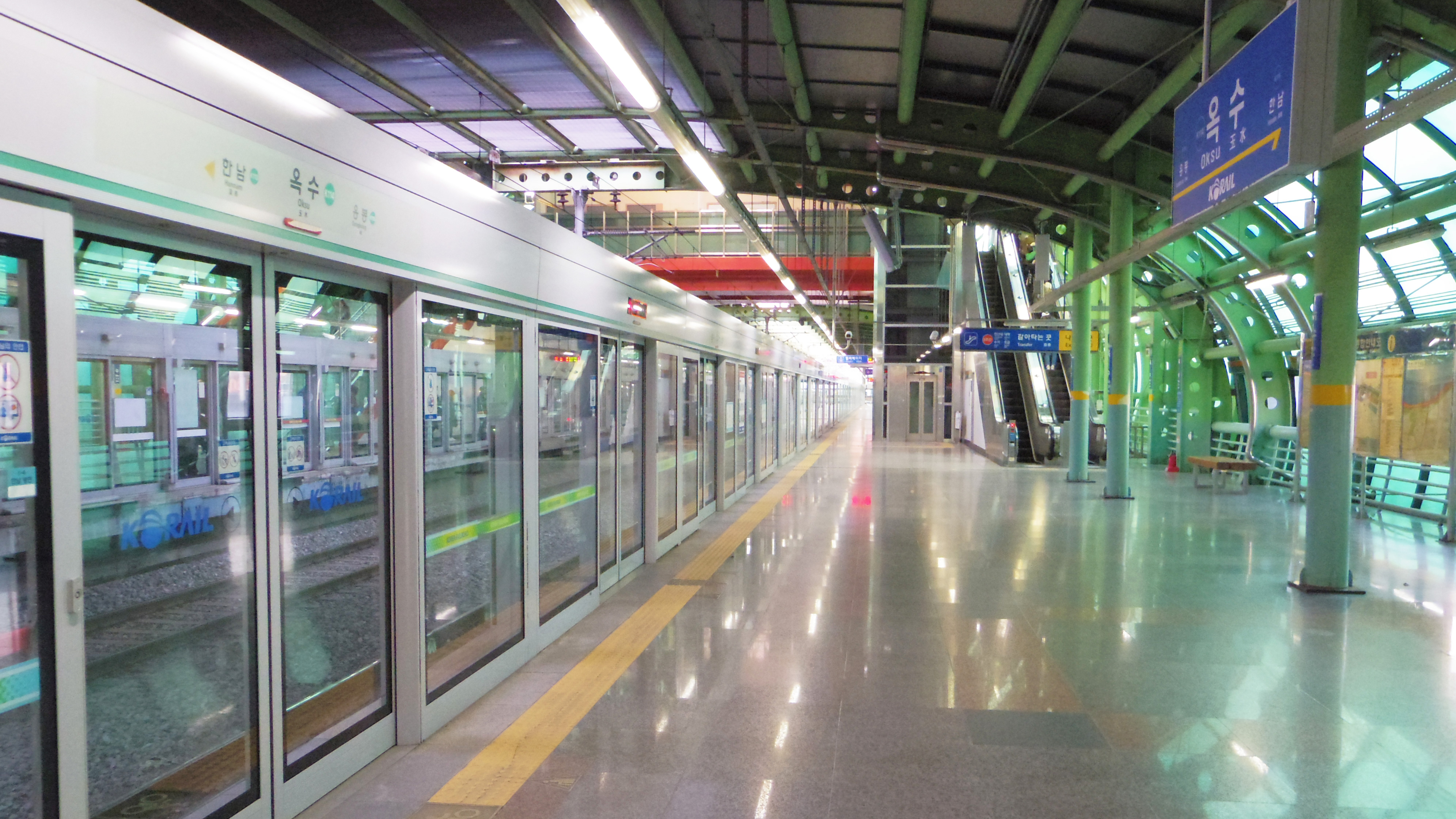 The platform at Oksu Station on Gyeongui–Jungang Line in Seongdong-gu, Seoul, Republic of Korea(South Korea)